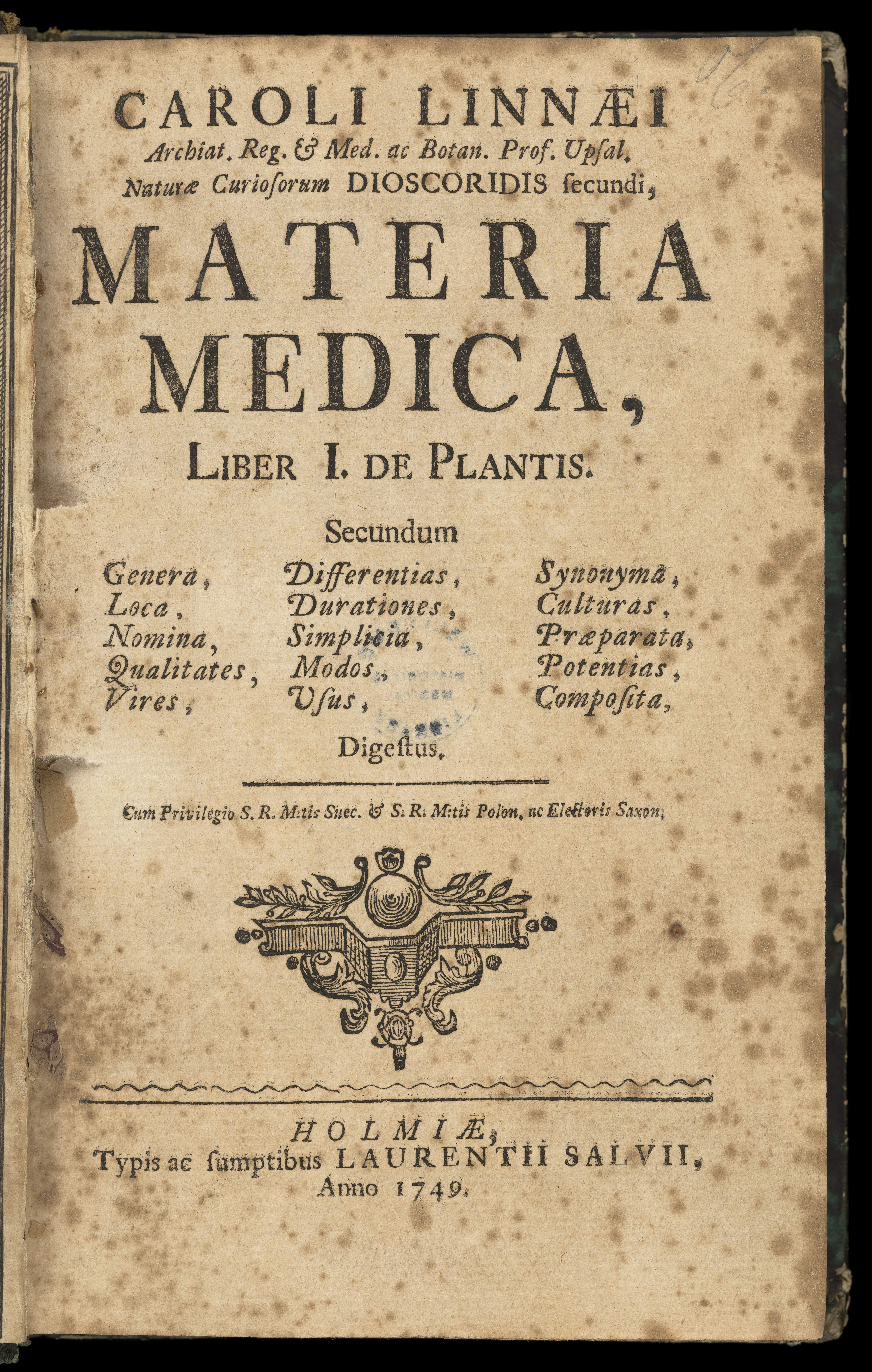 Titlepage to 'Materia Medica' Rare Books Keywords: Materia Medica; Plants, Medicinal